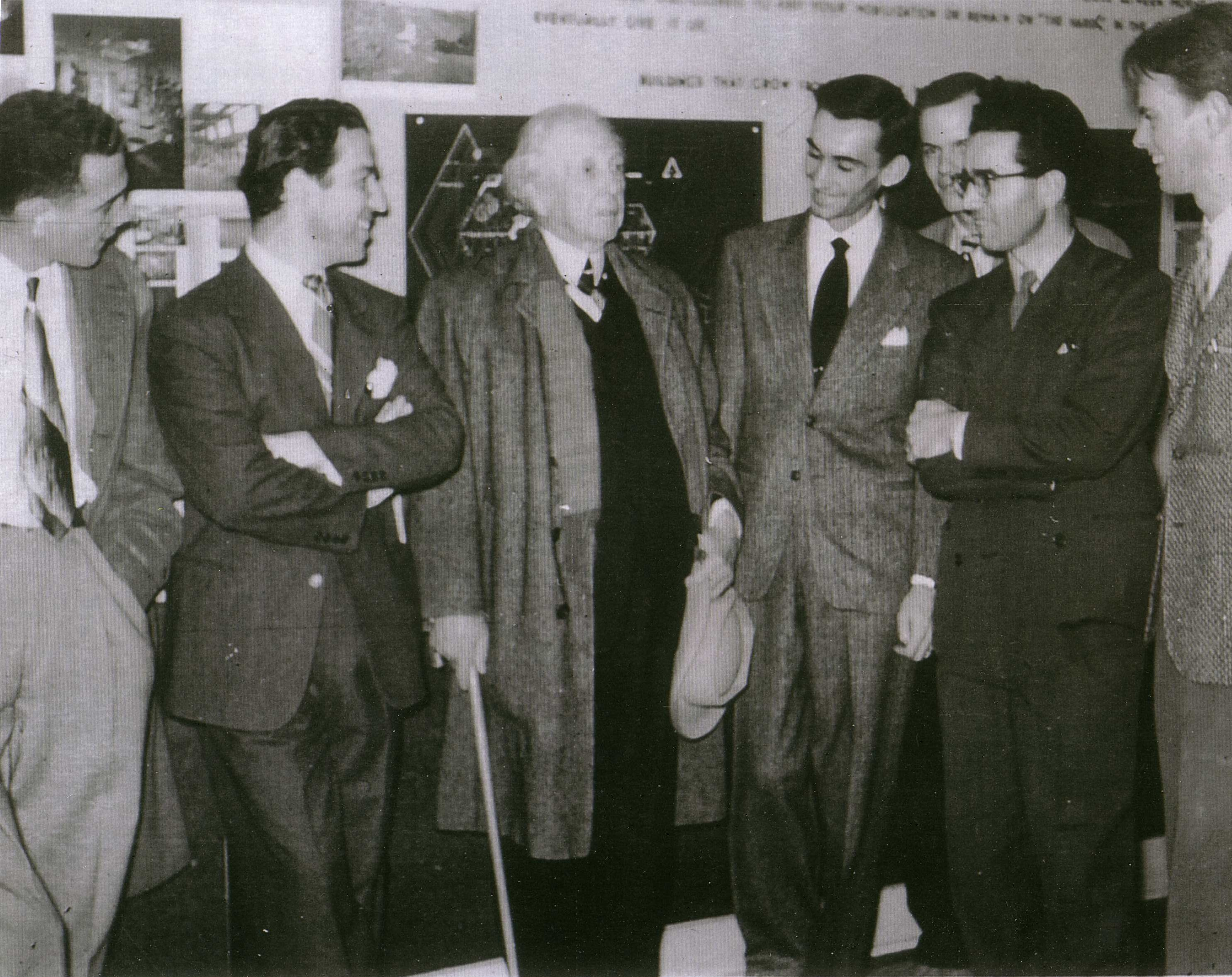 Eugene Sternberg with Students at University of Denver during Frank Loyd Wright visit